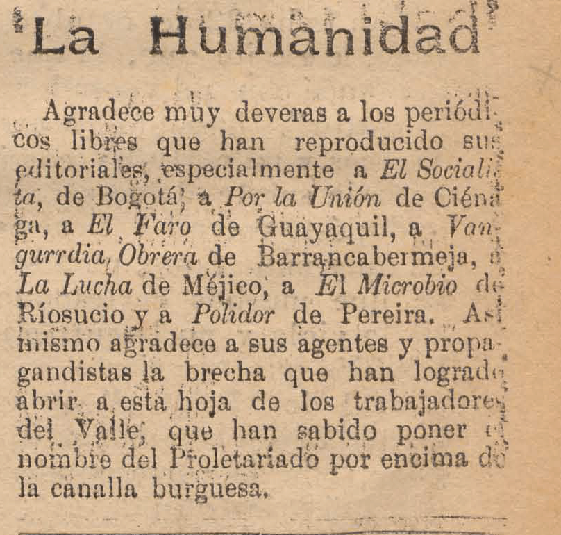 Agradecimiento a otros periódicos